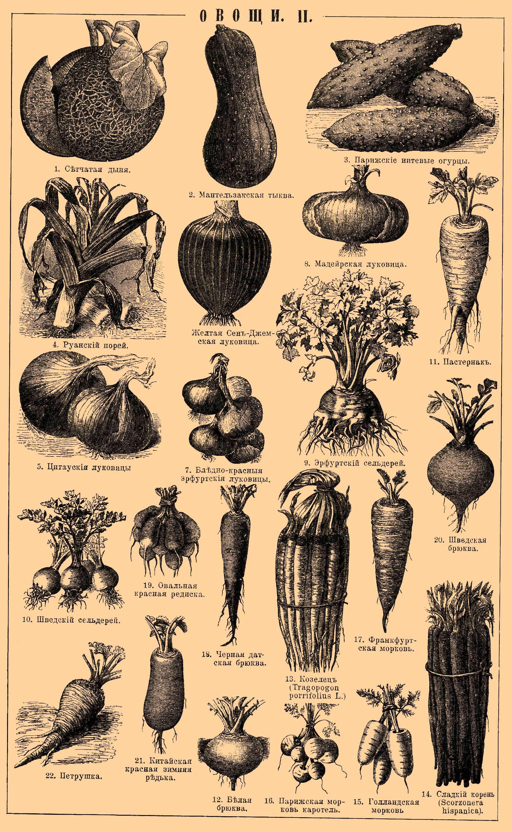 Illustration from Brockhaus and Efron Encyclopedic Dictionary (1890—1907)